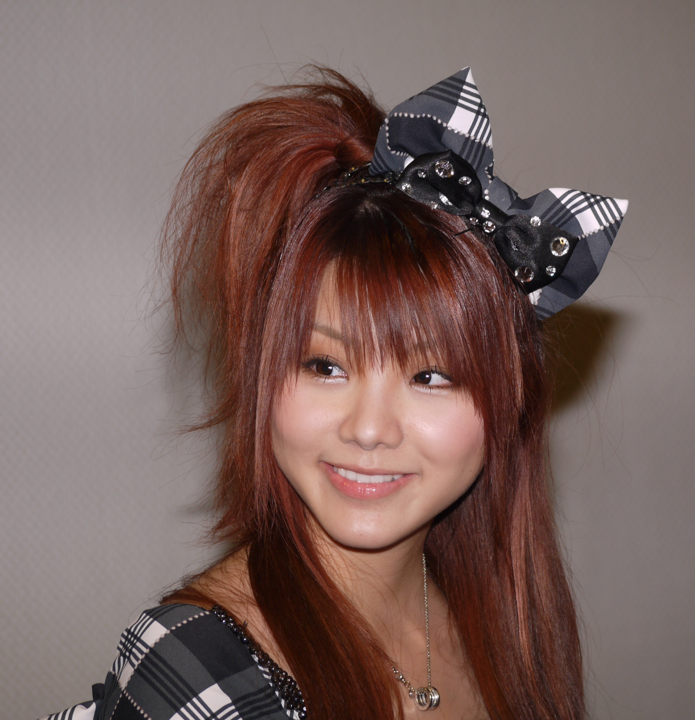 Japan Expo Festival, 11th impact